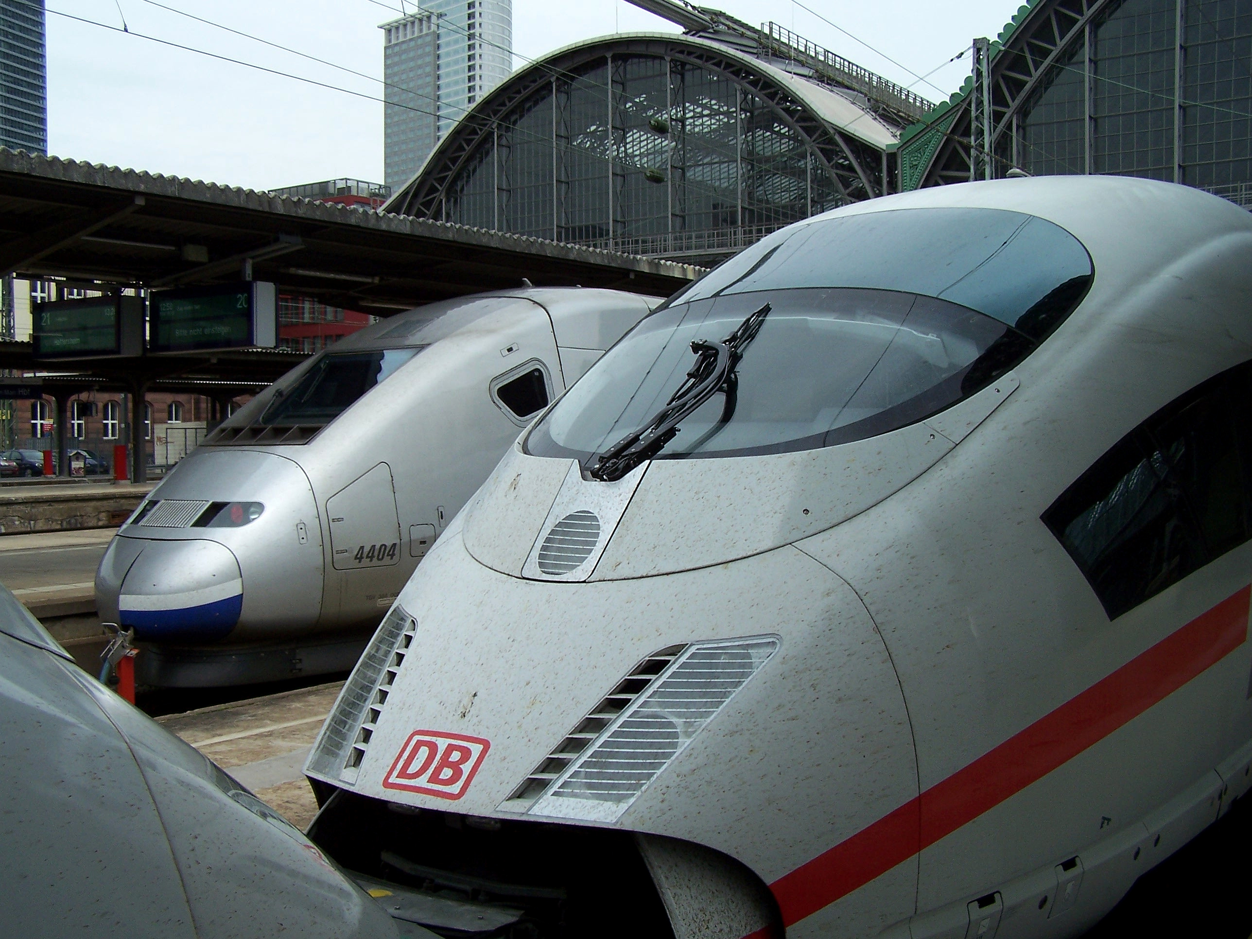 TGV POS No 4404 with an ICE3 in front in the Frankfurt Central Station in Frankfurt am Main-Bahnhofsviertel